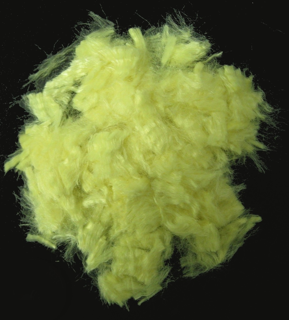 Golden yellow aramid fiber (Kevlar). The diameter of the filaments is about 10 µm. Melting point: none (does not melt). Decomposition temperature: 500-550 °C. Decomposition temperature in air: 427-482 °C (800-900 °F).